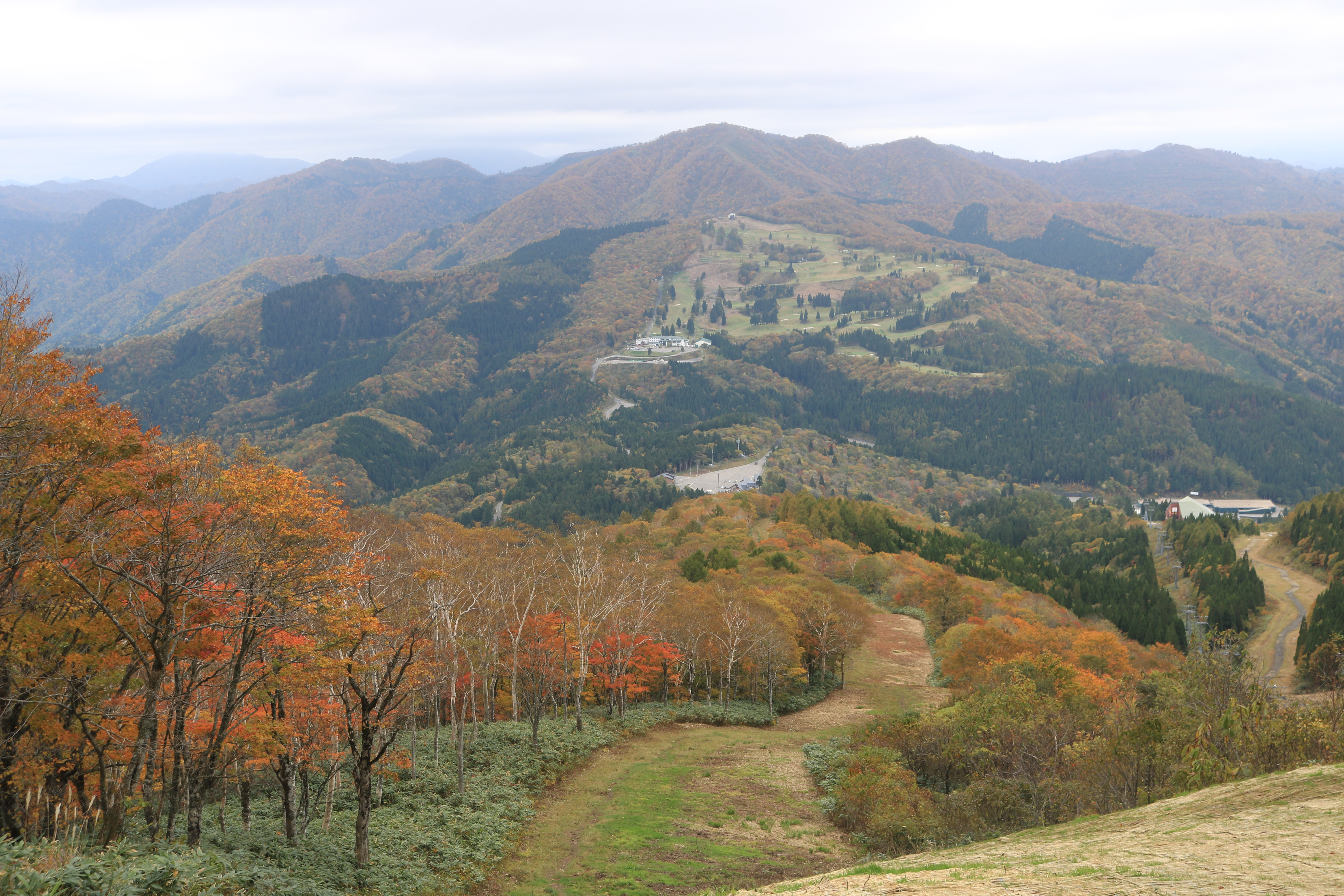 Mount Bishamon seen from Winghills Shirotori Resort in mount Dainichi, Ryohaku Mountains, Japan.